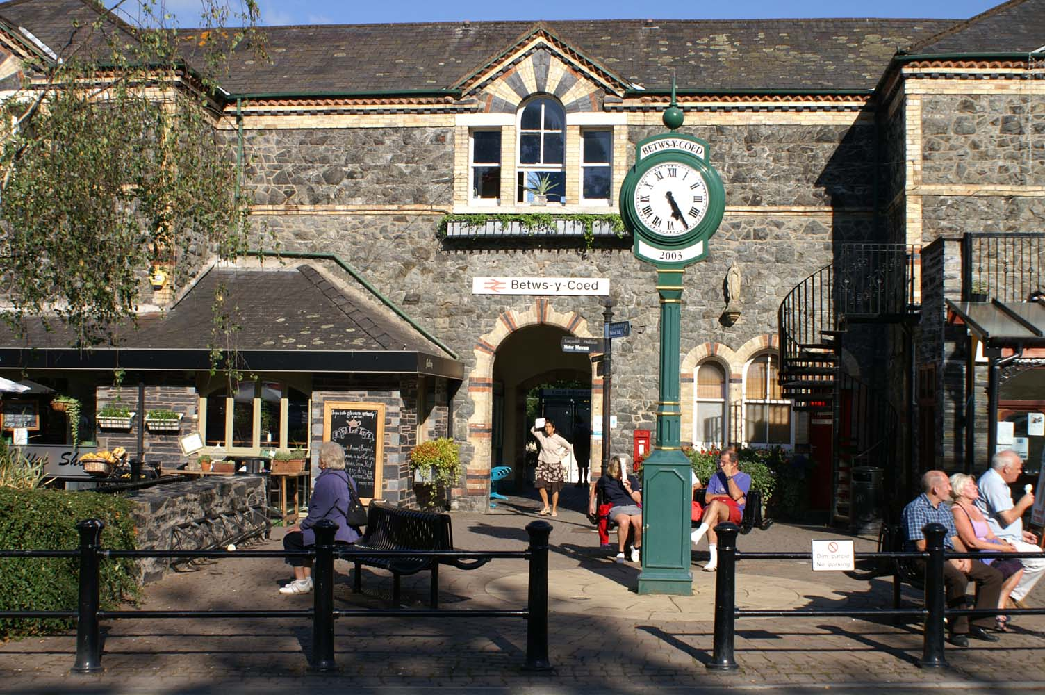 Betws-y-Coed railway station. Photograph by Geoffrey Skelsey